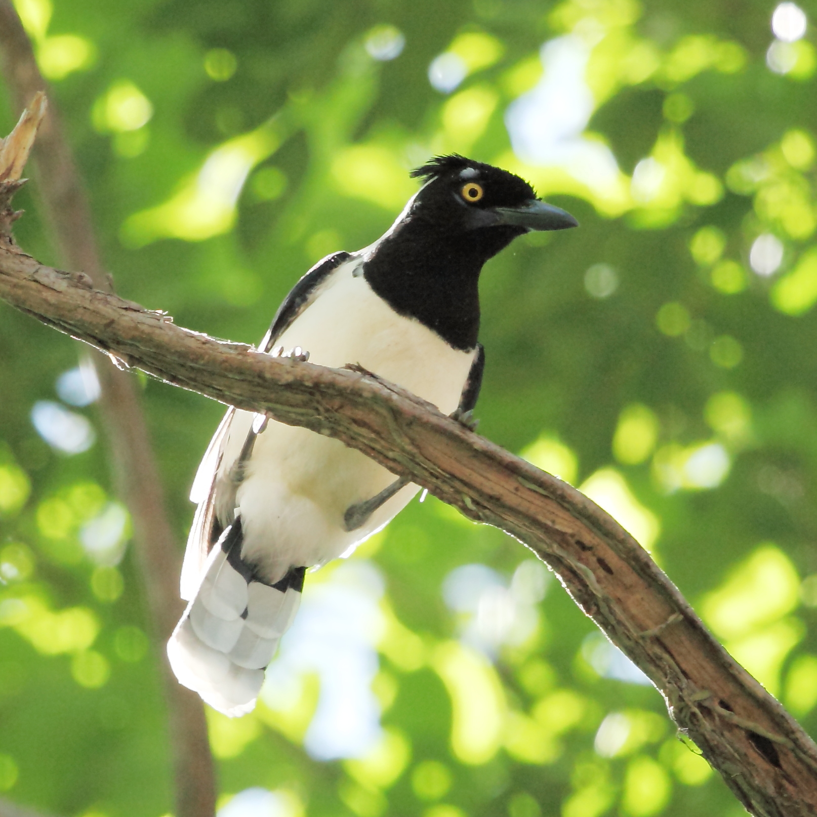 White-naped Jay at Natal - RN - Brazil